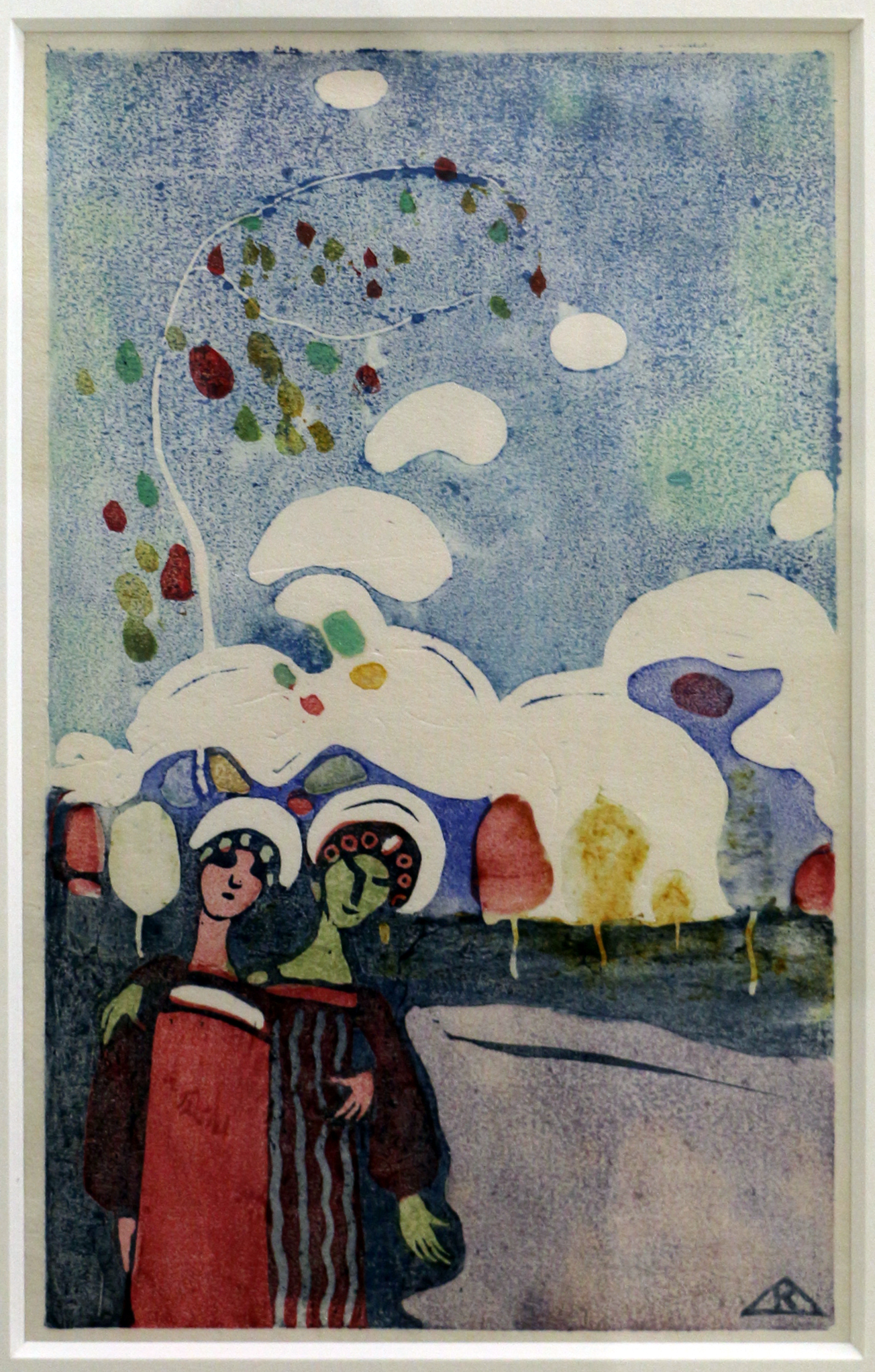 Graphic in the Musée national d'art moderne